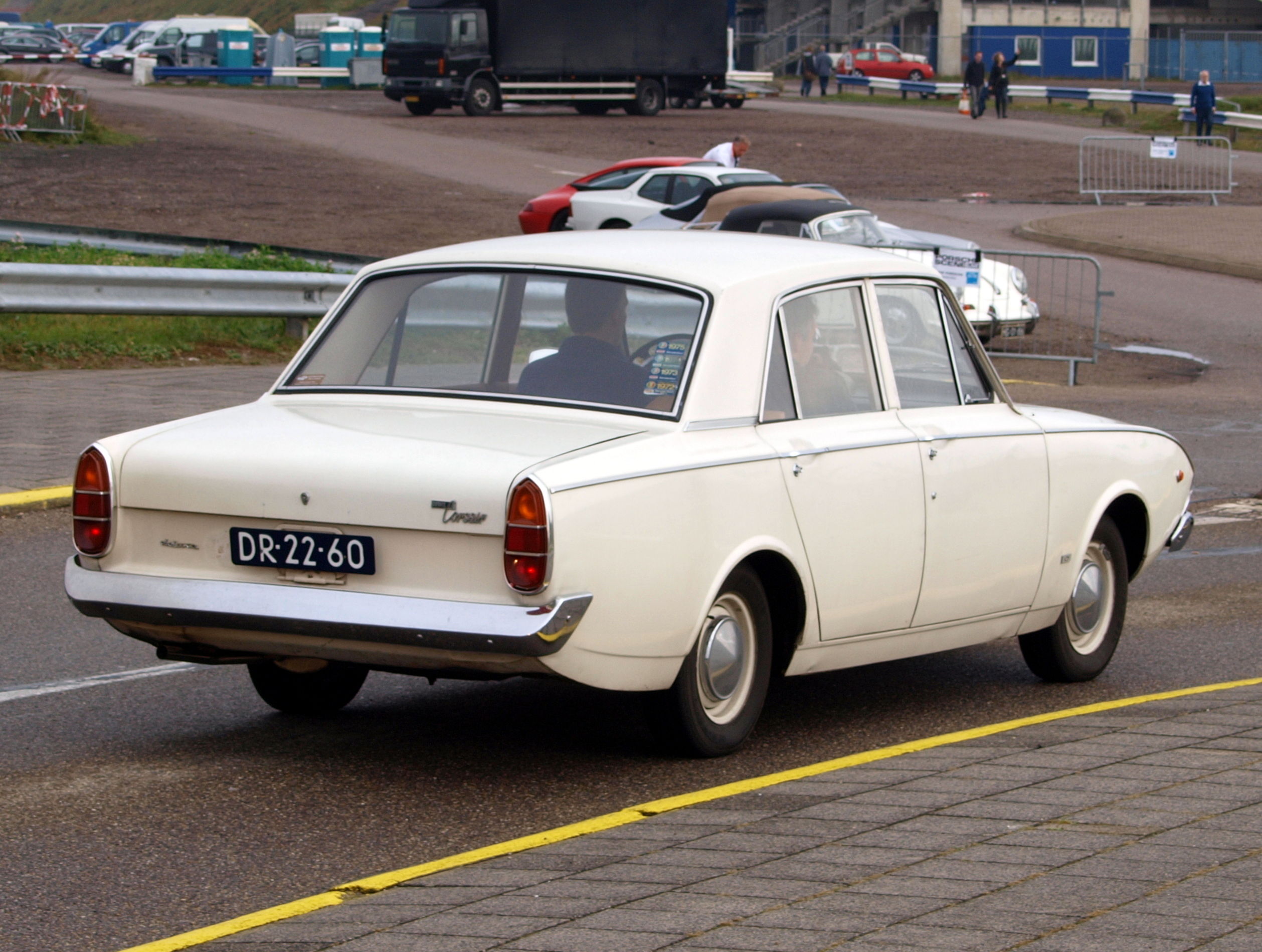 Photographed at the Nationaal Oldtimer Festival Zandvoort 2010, The Netherlands.